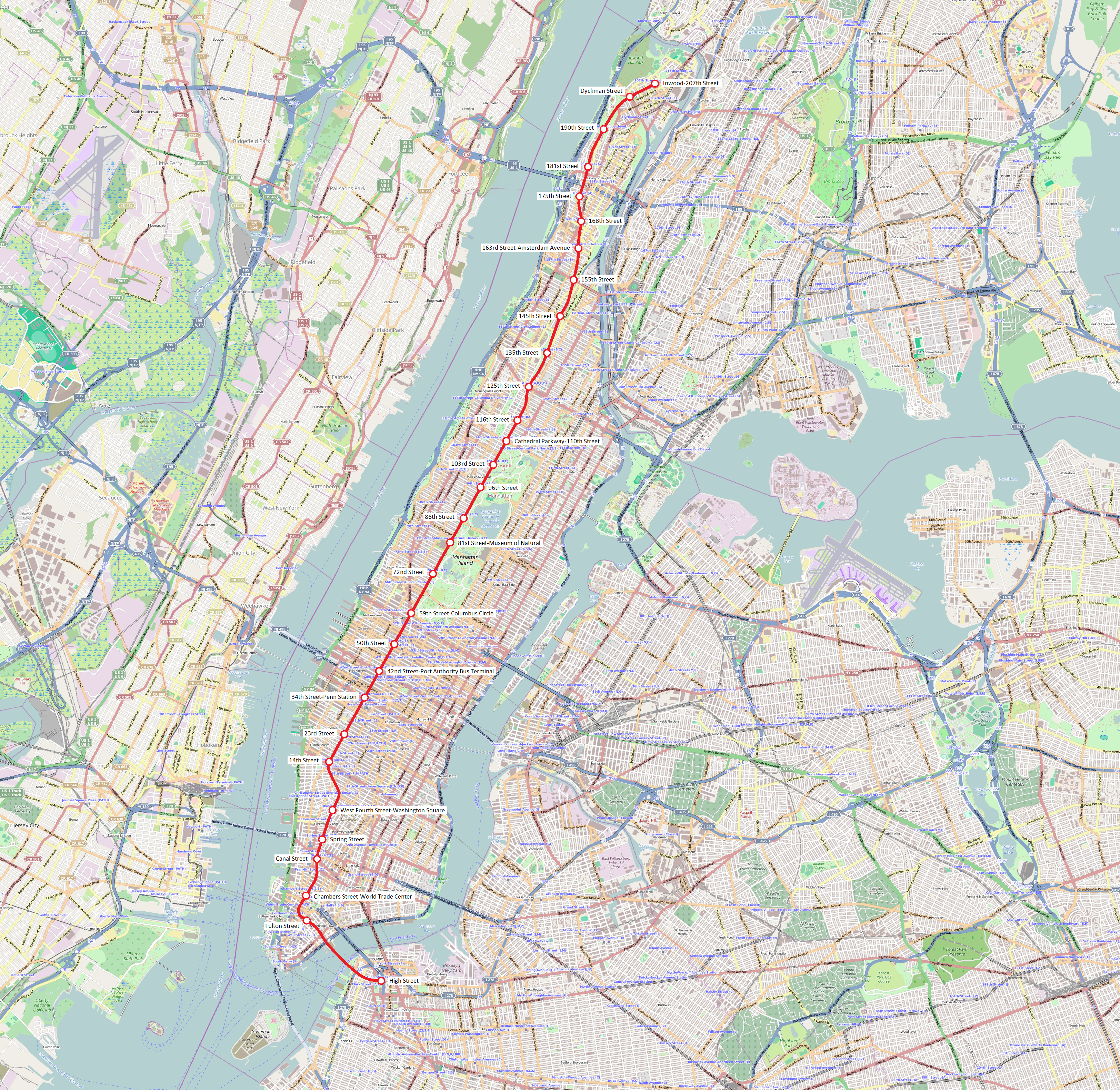 IND Eighth Avenue Line map